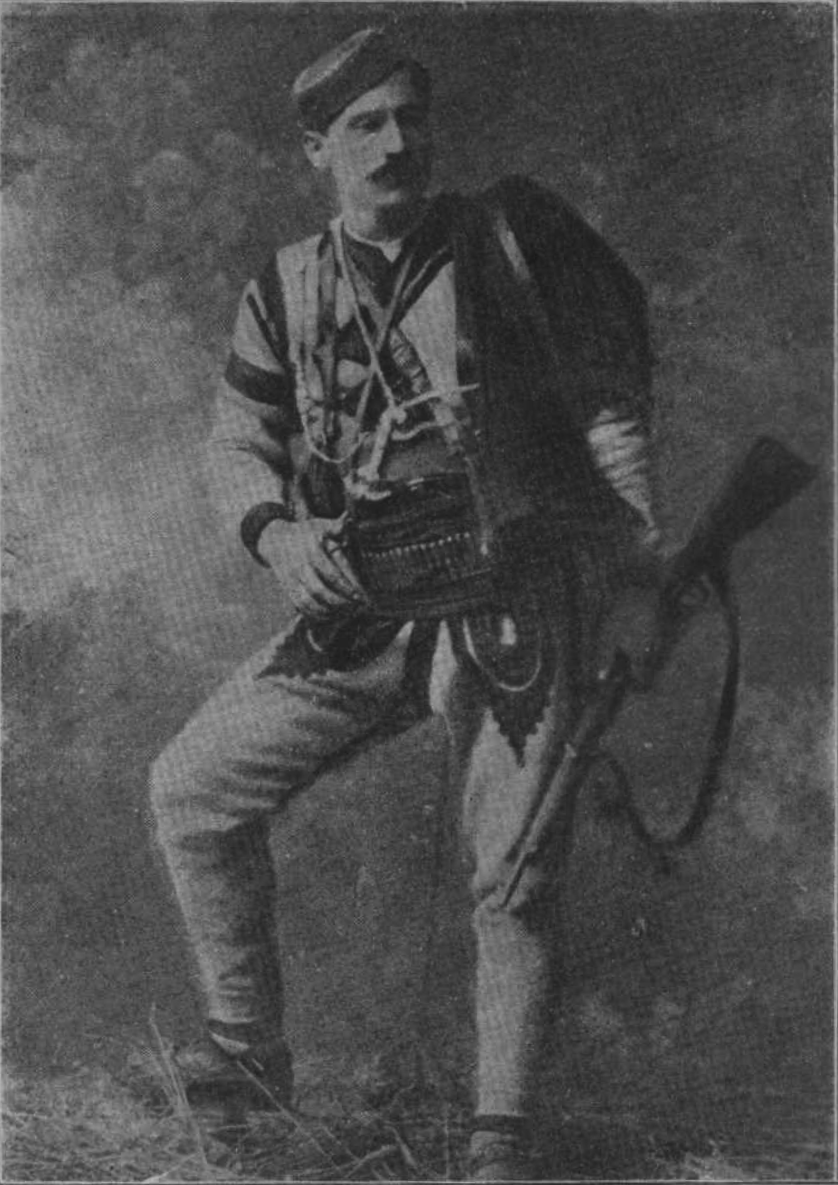 A photograph of Ivan Naumov Alyabaka, member of the revolutionary organization IMARO.